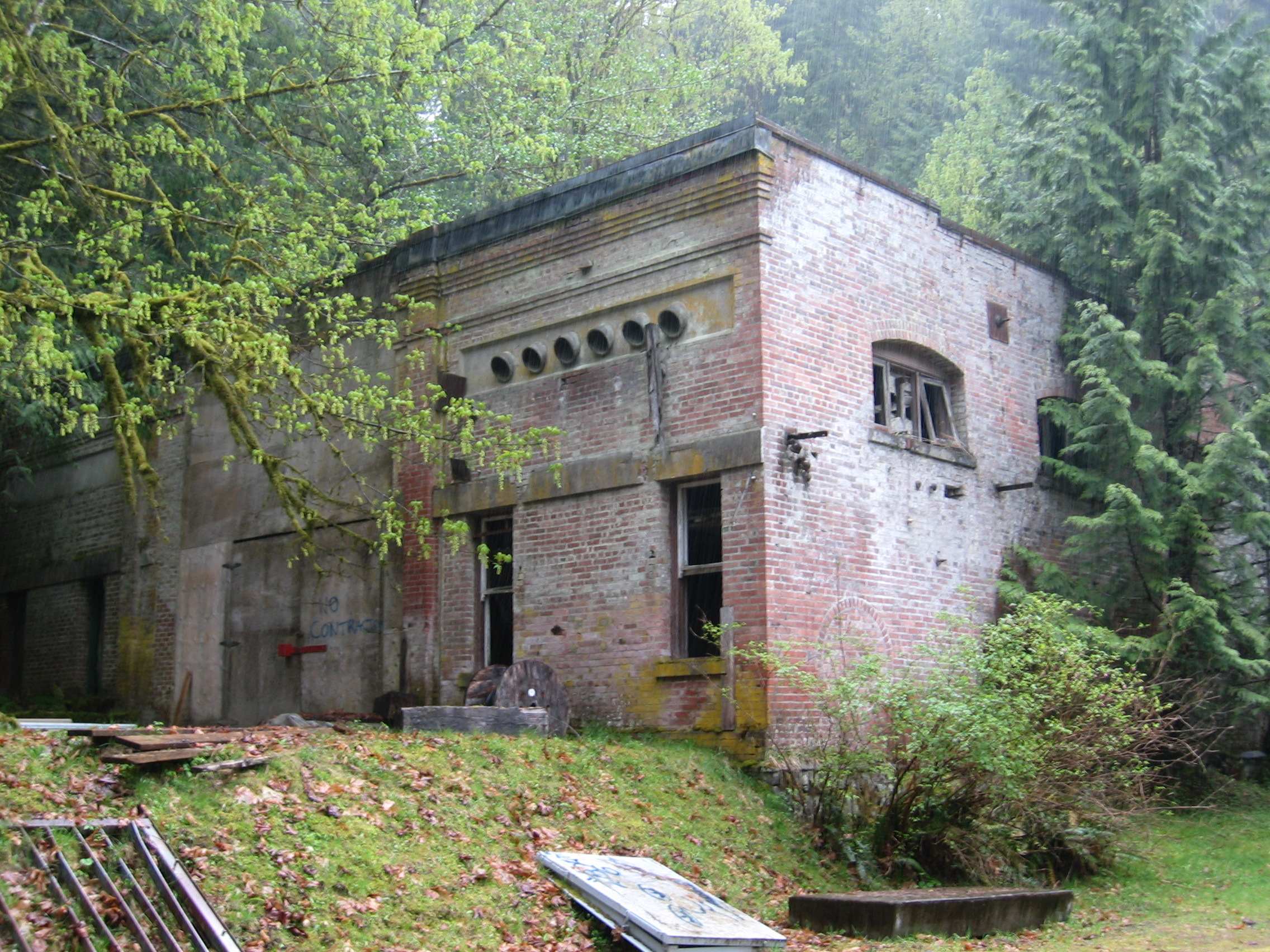 The Lubbe Powerhouse